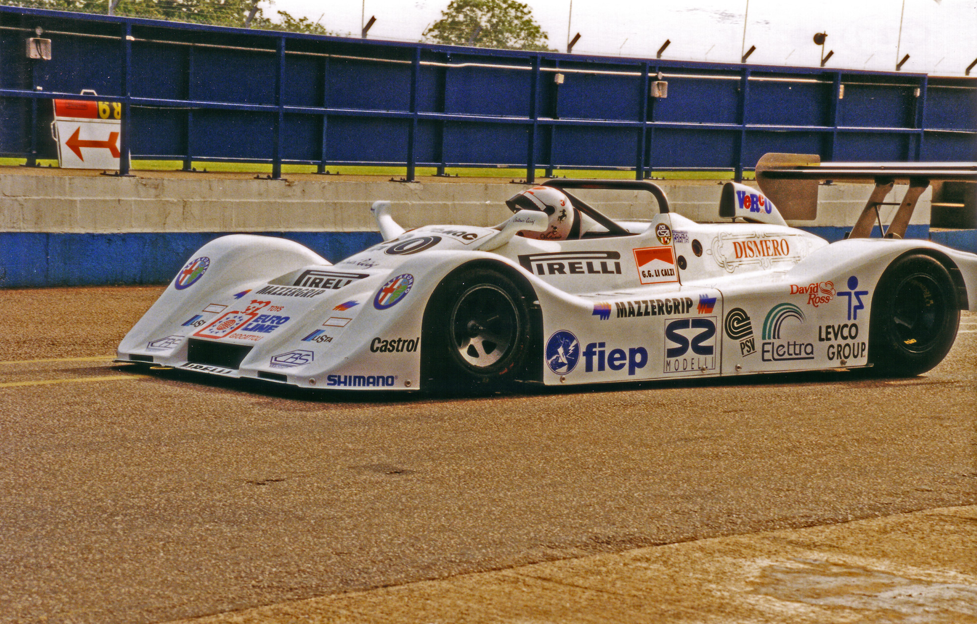 Artuto Merzario's Centenari M1-Alfa Romeo at Donington Park on 5th July 1997